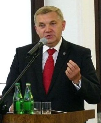 Mayor of Białystok Tadeusz Truskolaski. Conference "Opportunities and challenges for local government in Poland" in the Polish Senate